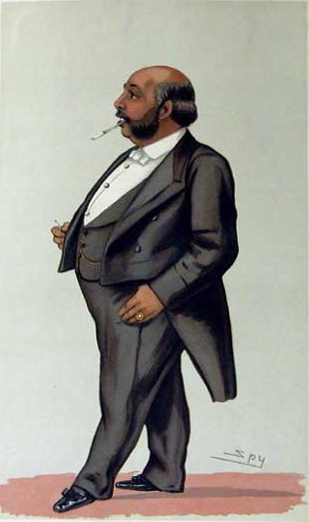 Caricature of HH The Maharajah Duleep Singh GCSI.